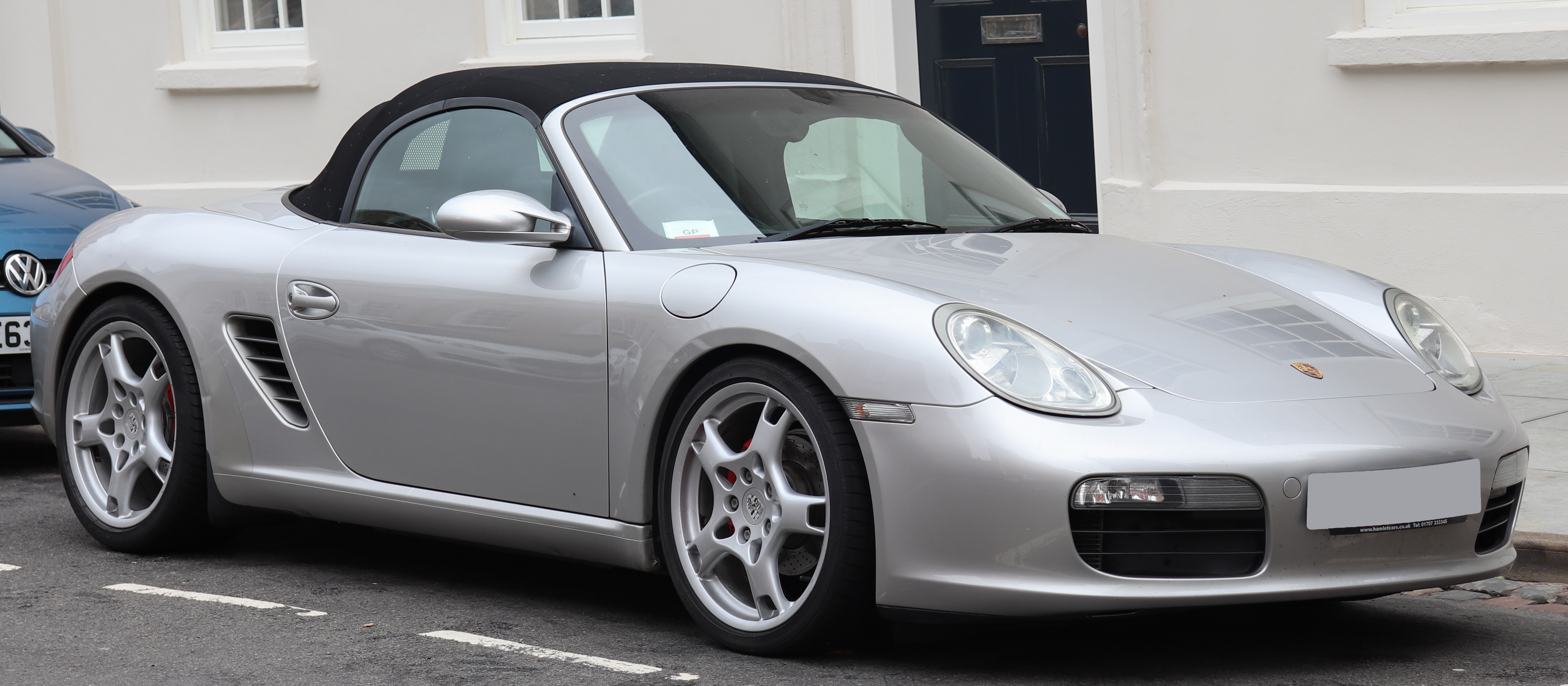 2006 Porsche Boxster 2.7 Front Taken in Warwick